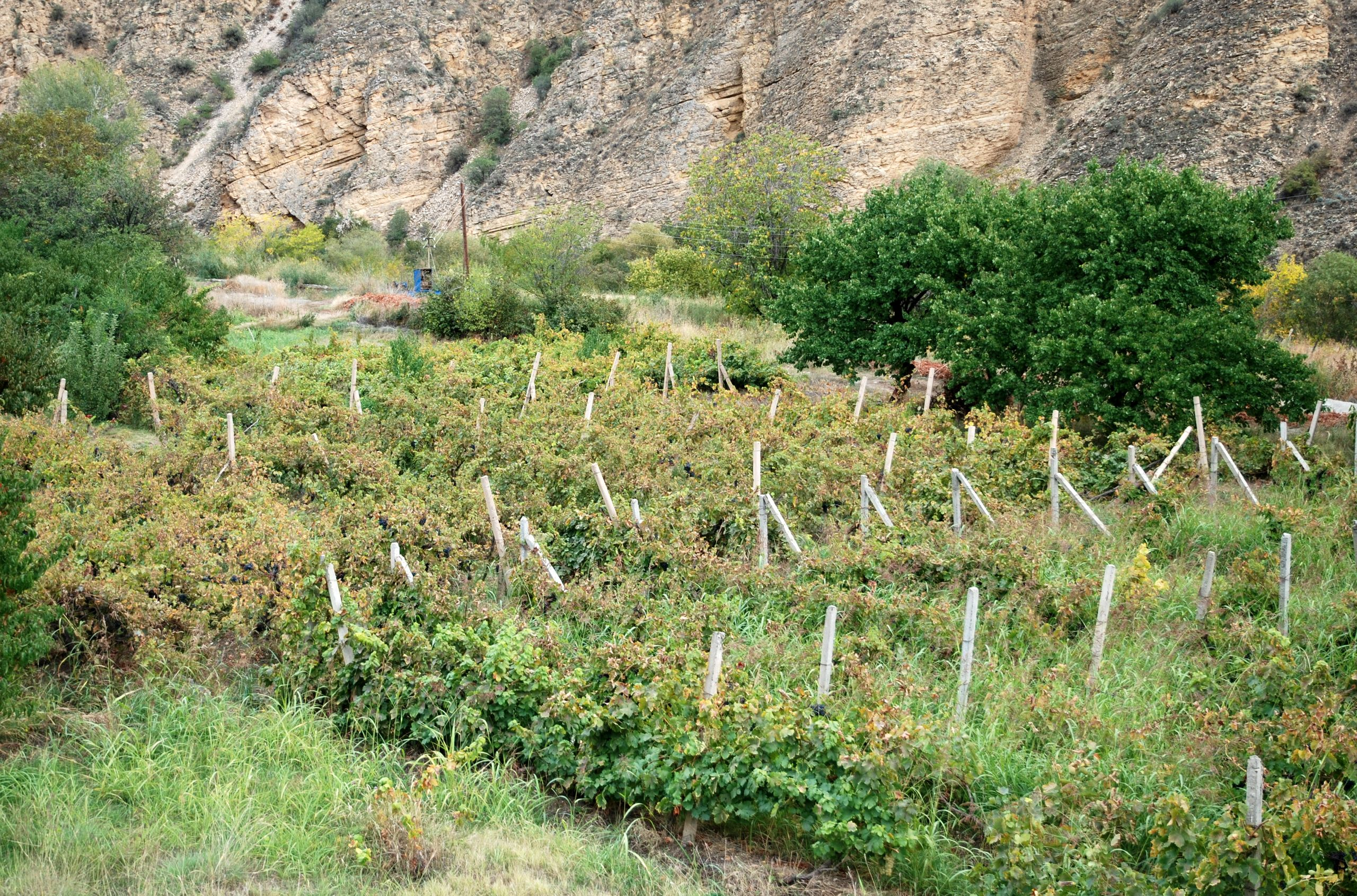 Areni, grapes